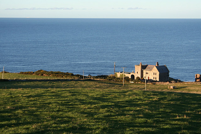 Dundarg Castle and Fort